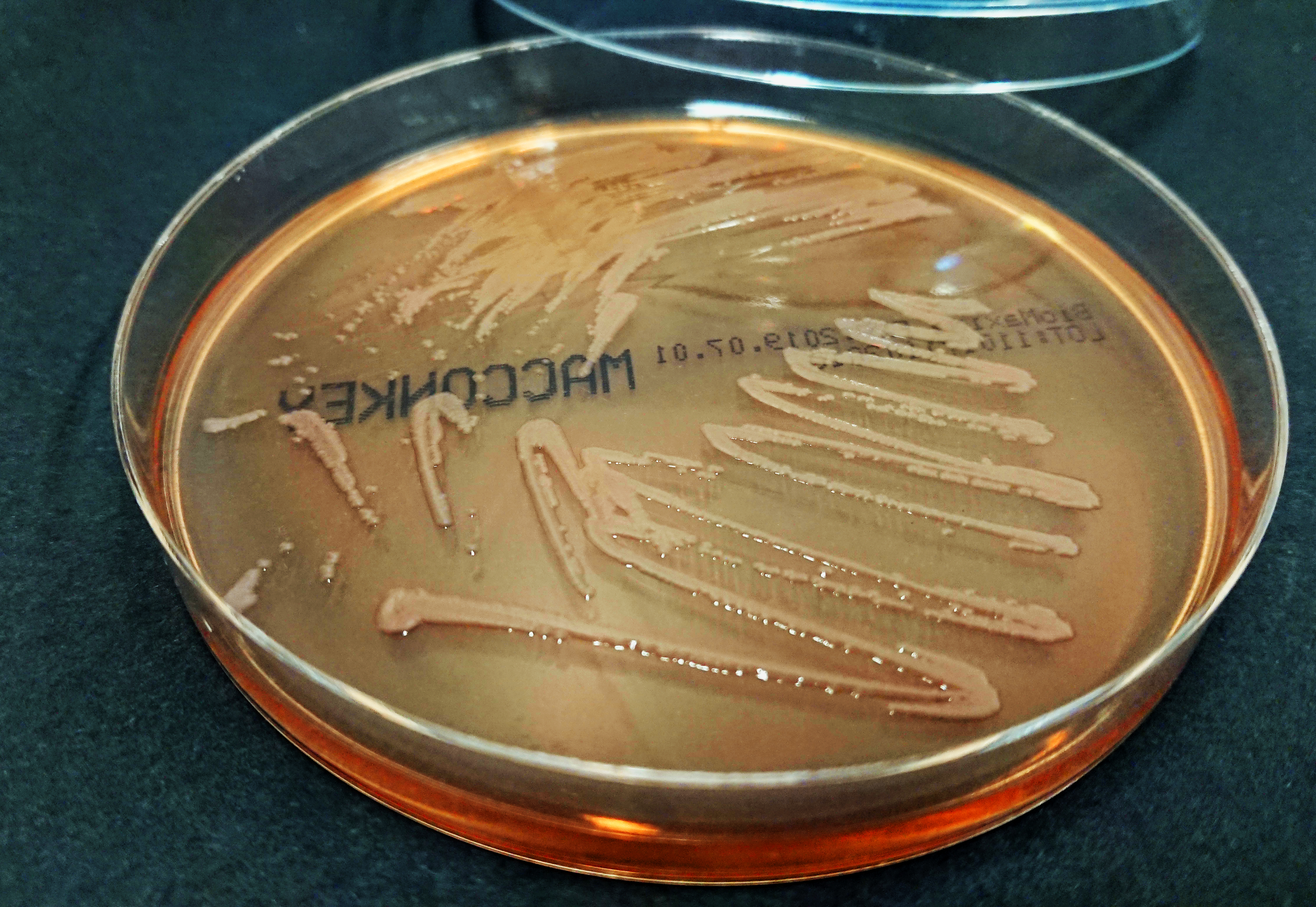 Stenotrophomonas maltophilia clinical isolates on McConkey agar